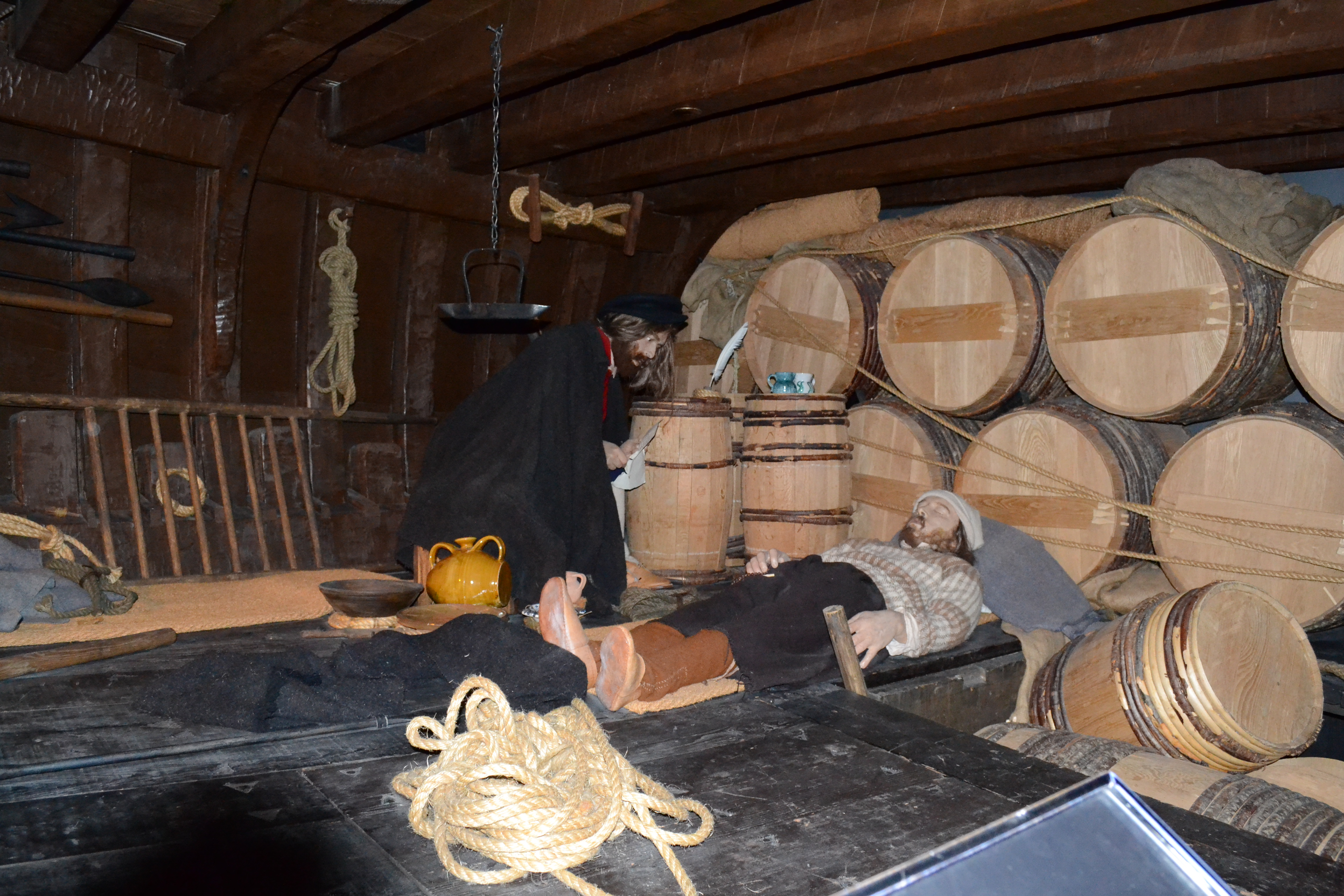 Highlights in Canada Hall include numerous life-size recreations, including this depiction of the interior of a Basque whaling ship circa 1560. The mannequin seen here actually shows a chap lying dead. There was a plaque there giving an explanation, unfortunately I do not seem to have made any notes of it. Probably worth dying like that, surrounded by all those kegs of wine! (Ottawa, Canada, Dec. 2012)